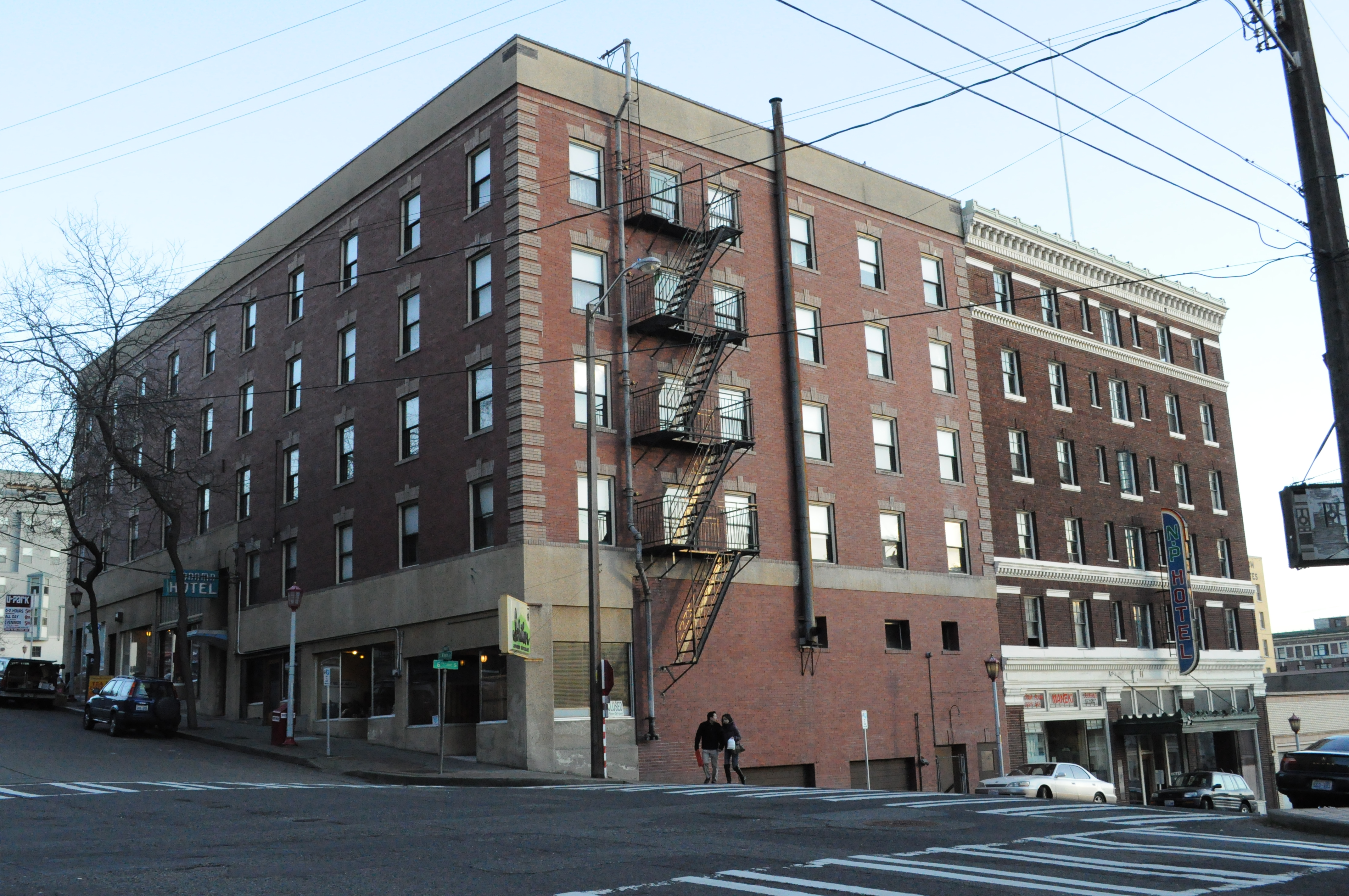 Panama and NP Hotels, Sixth Ave S, in the International District, Seattle, Washington.